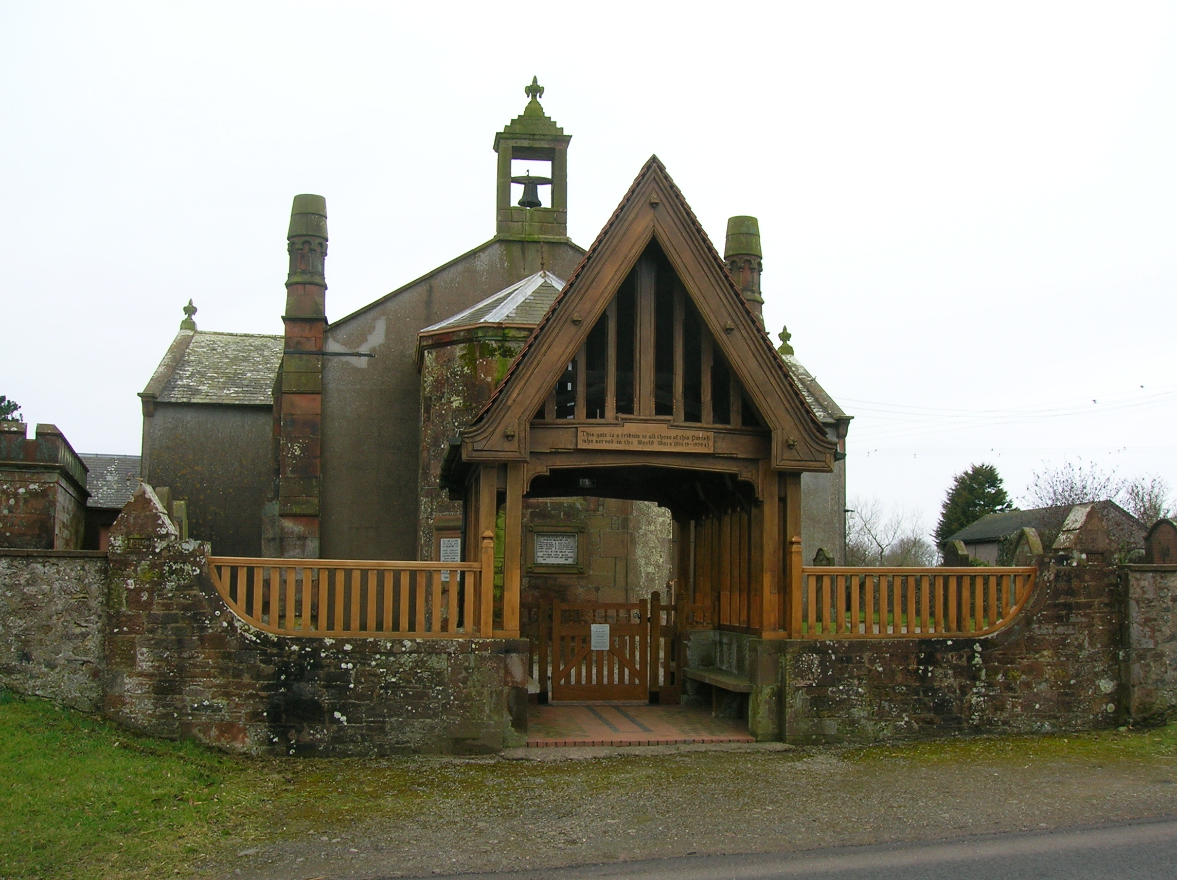 Cummertrees Parish Church and Lychgate, Dumfries, Scotland